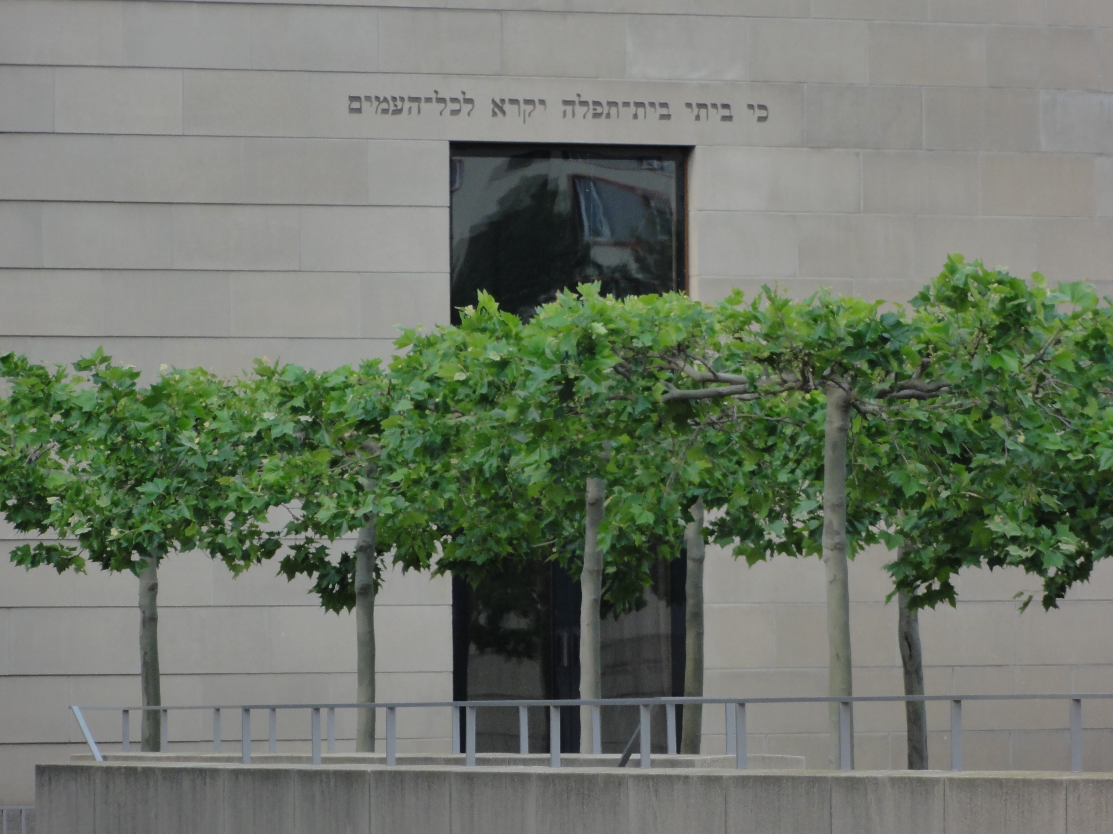 The Synagogue in Dresden.